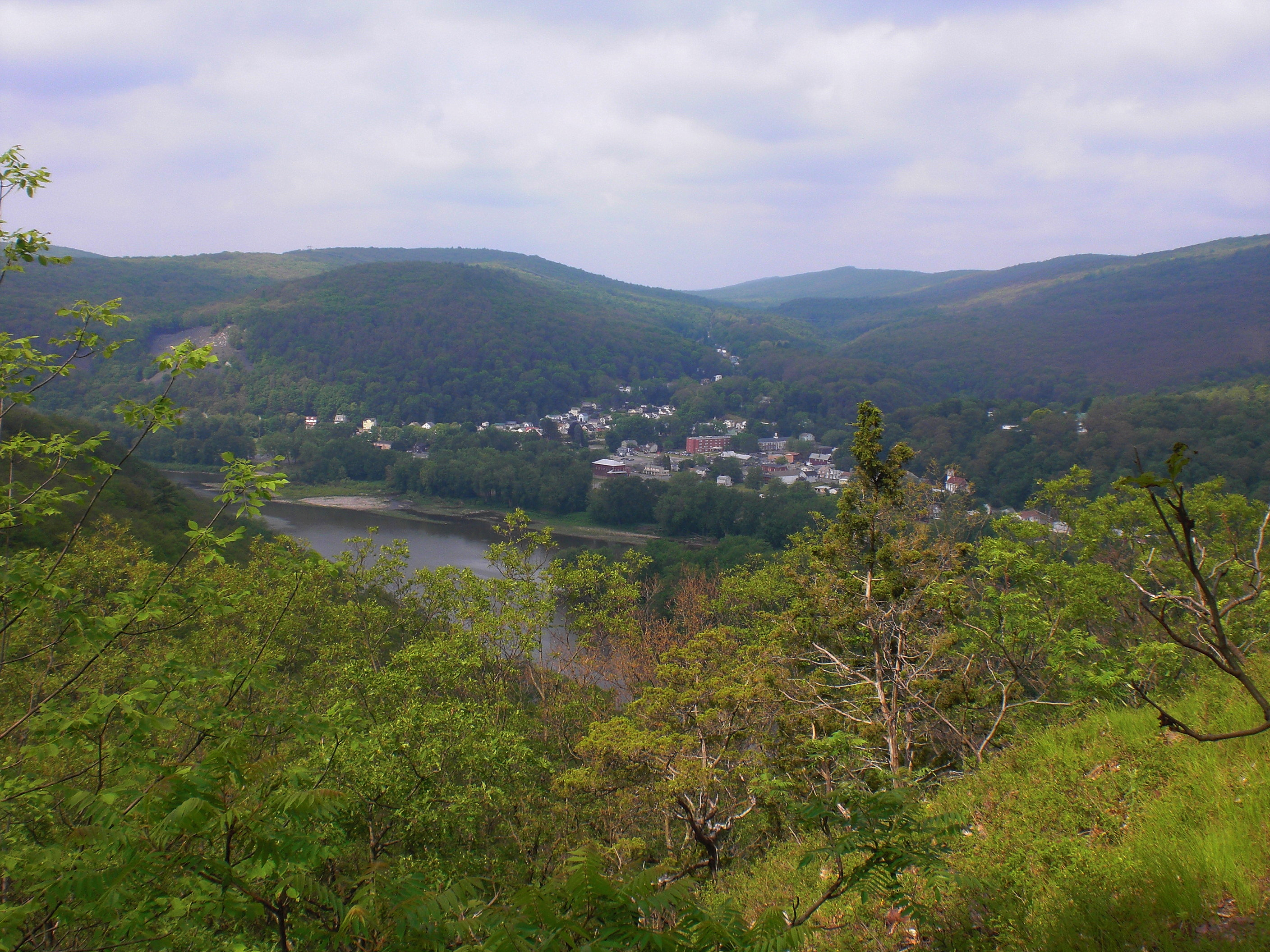 View of Shickshinny, Pennsylvania from Overlook B on the Mocanaqua Loop Trail. The Susquehanna River is in the foreground